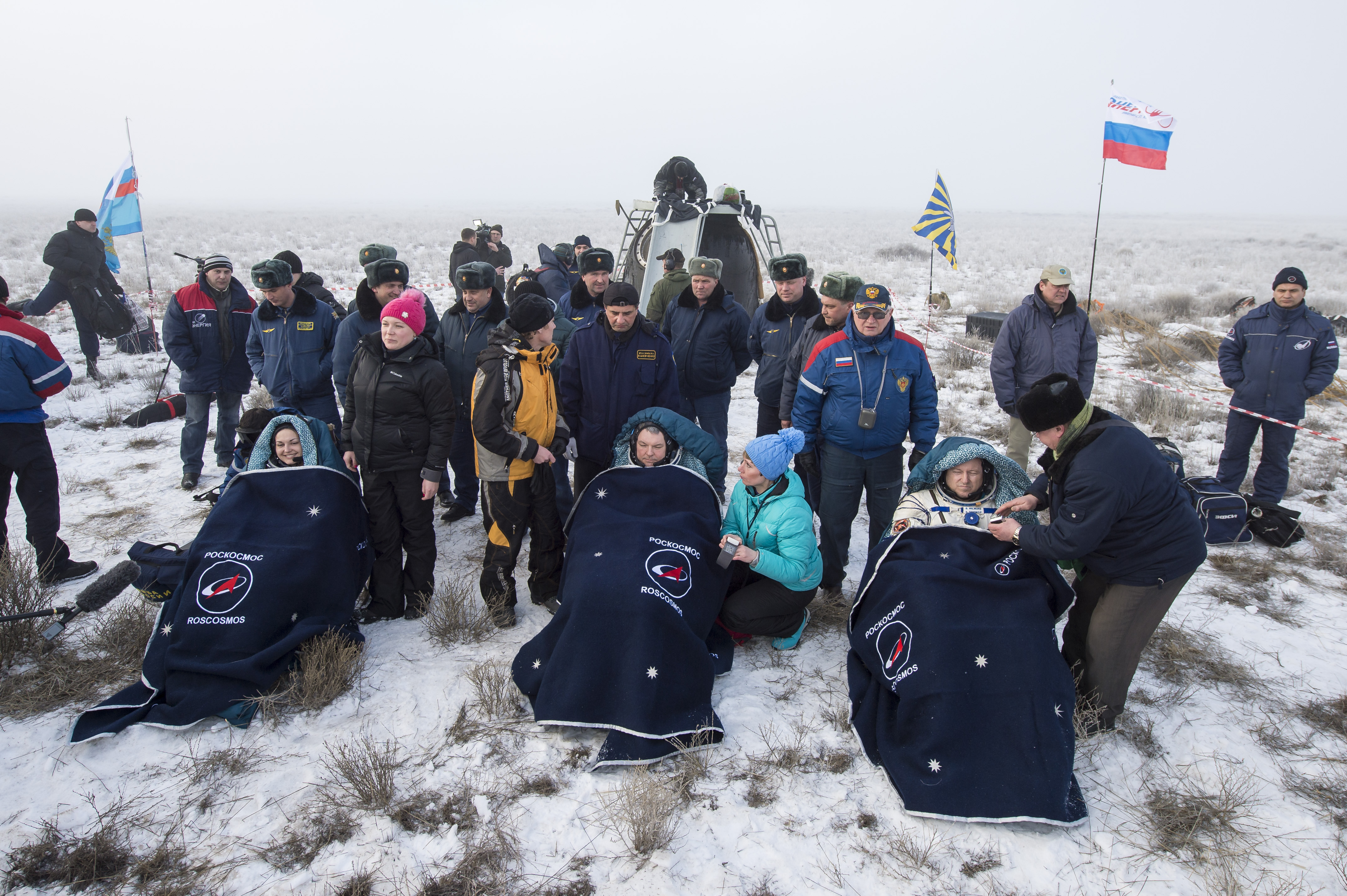 Expedition 42 Cosmonaut Elena Serova of the Russian Federal Space Agency (Roscosmos, left, Alexander Samokutyaev of Roscosmos, center, and NASA Astronaut Barry Wilmore of NASA sit in chairs outside the Soyuz TMA-14M spacecraft just minutes after they landed in a remote area near the town of Zhezkazgan, Kazakhstan on Thursday, March 12, 2015. NASA Astronaut Wilmore, Russian Cosmonauts Samokutyaev and Serova are returning after almost six months onboard the International Space Station where they served as members of the Expedition 41 and 42 crews.